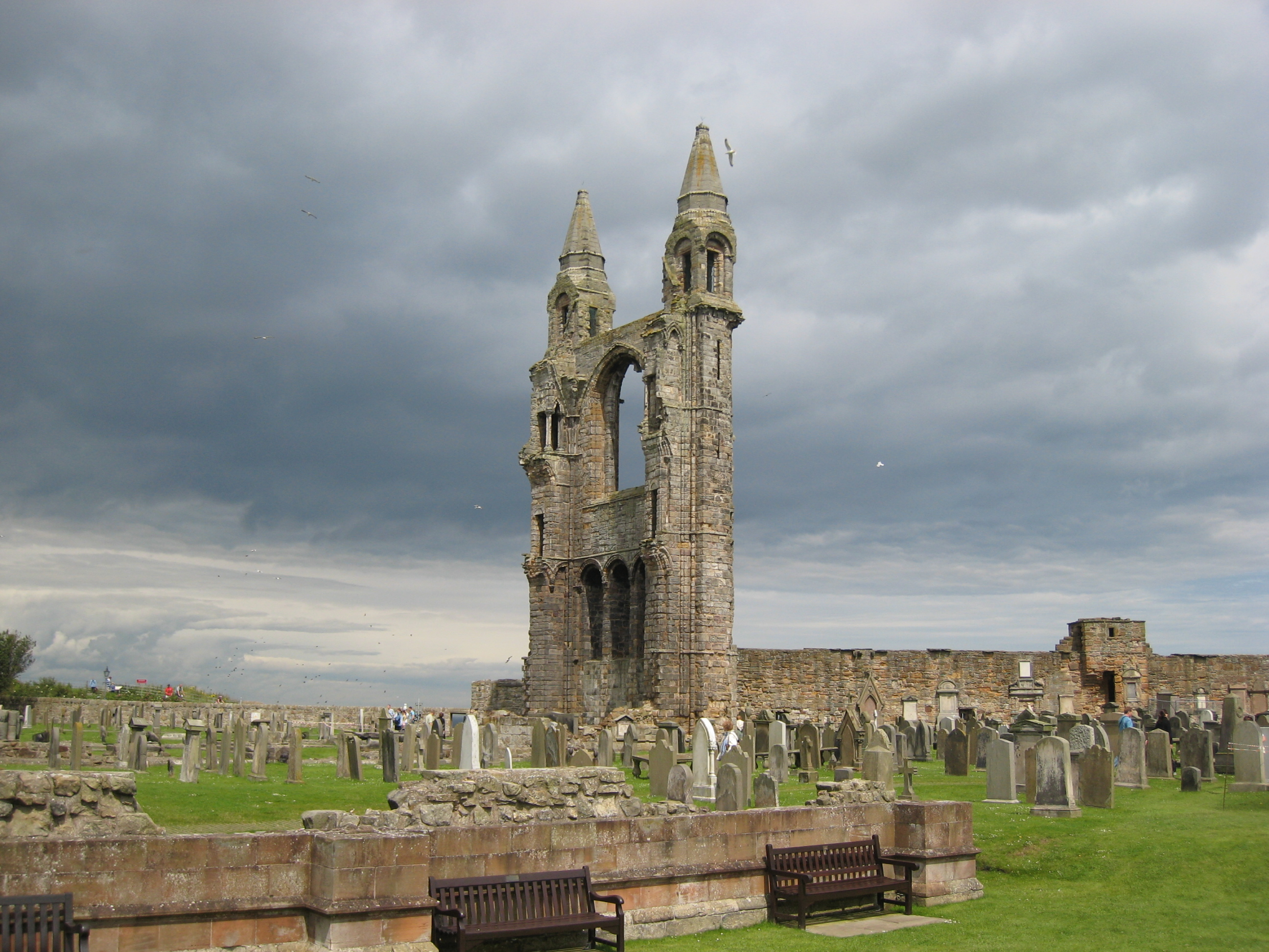 A view of the St Andrews Cathedral ruins